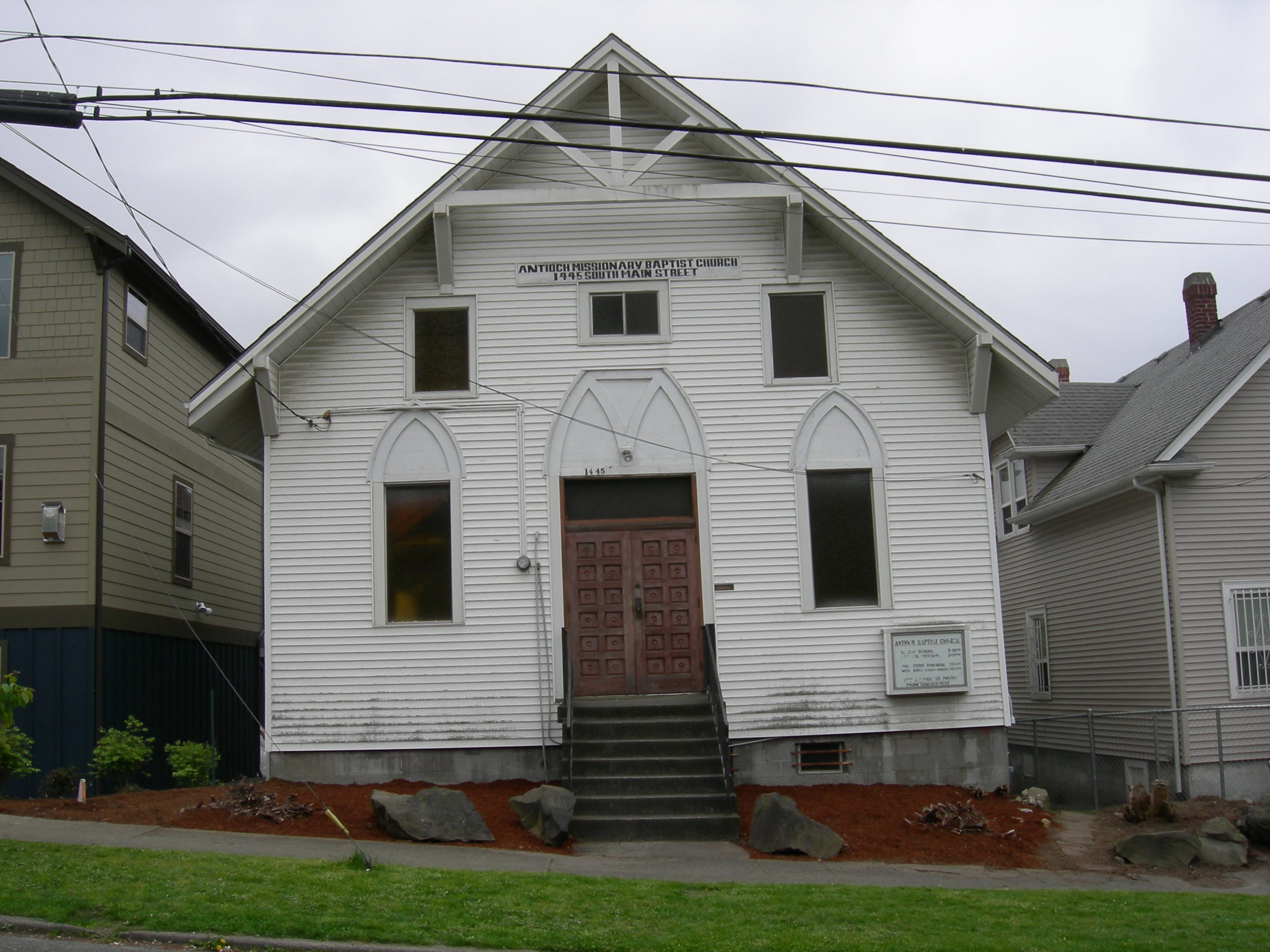 Antioch Missionary Baptist Church, across the street from Wisteria Park on the eastern edge of the International District, Seattle, Washington (or the western edge of the Central District).